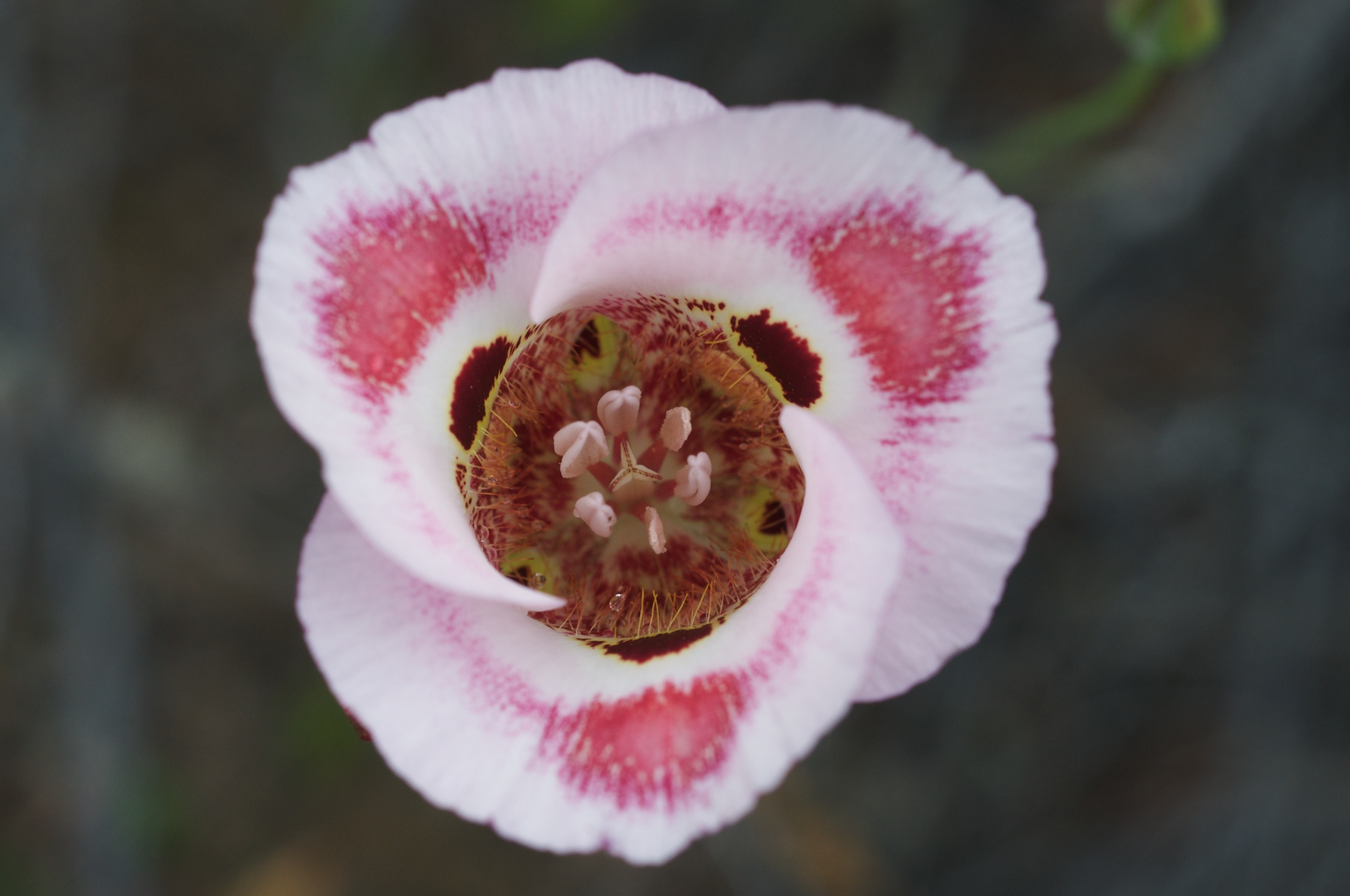 Species from California Common name: Mariposa Lily Photographed on Panoche Road, San Benito County, California